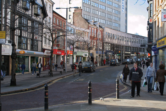 The Gates of Nottingham (16) "Wheeler Gate. This was once the main road from the Market Square leading towards Trent Bridge. Through traffic is now excluded. Nottingham has some 15 streets incorporating the Norse-derived 'Gate', meaning a thoroughfare, not a barrier." Next in series 336764